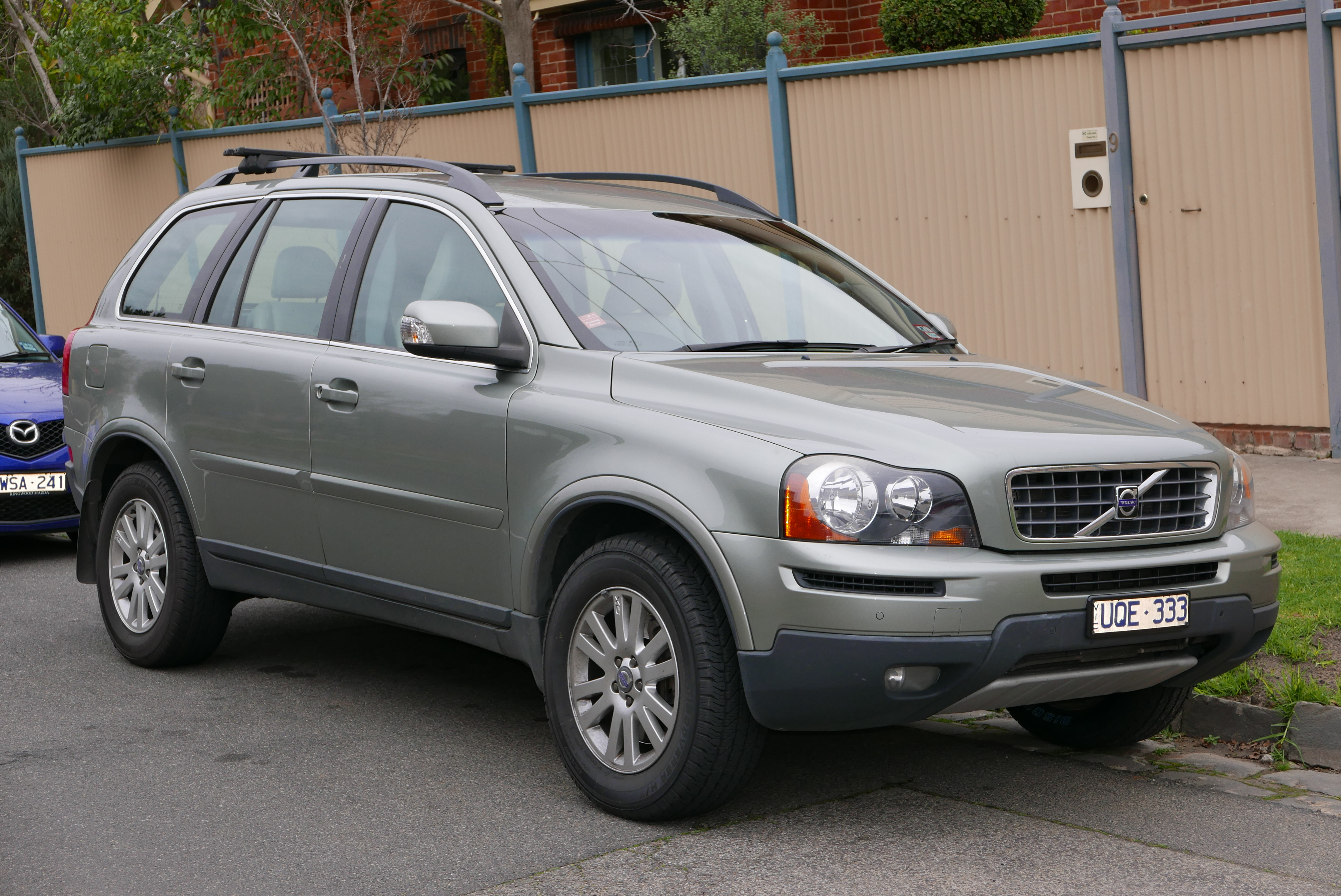 2007 Volvo XC90 (P28 MY07) D5 wagon. Photographed in Kew, Victoria, Australia. Vehicle registration enquiry results Jurisdiction Victoria Registration UQE333 Chassis code YV1CZ714671376712 Engine code 451579 Compliance date 2007-02 Year of manufacture 2007